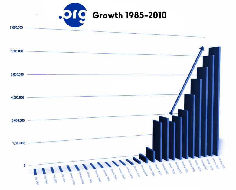 Growth Chart of .ORG domains 1985-2010